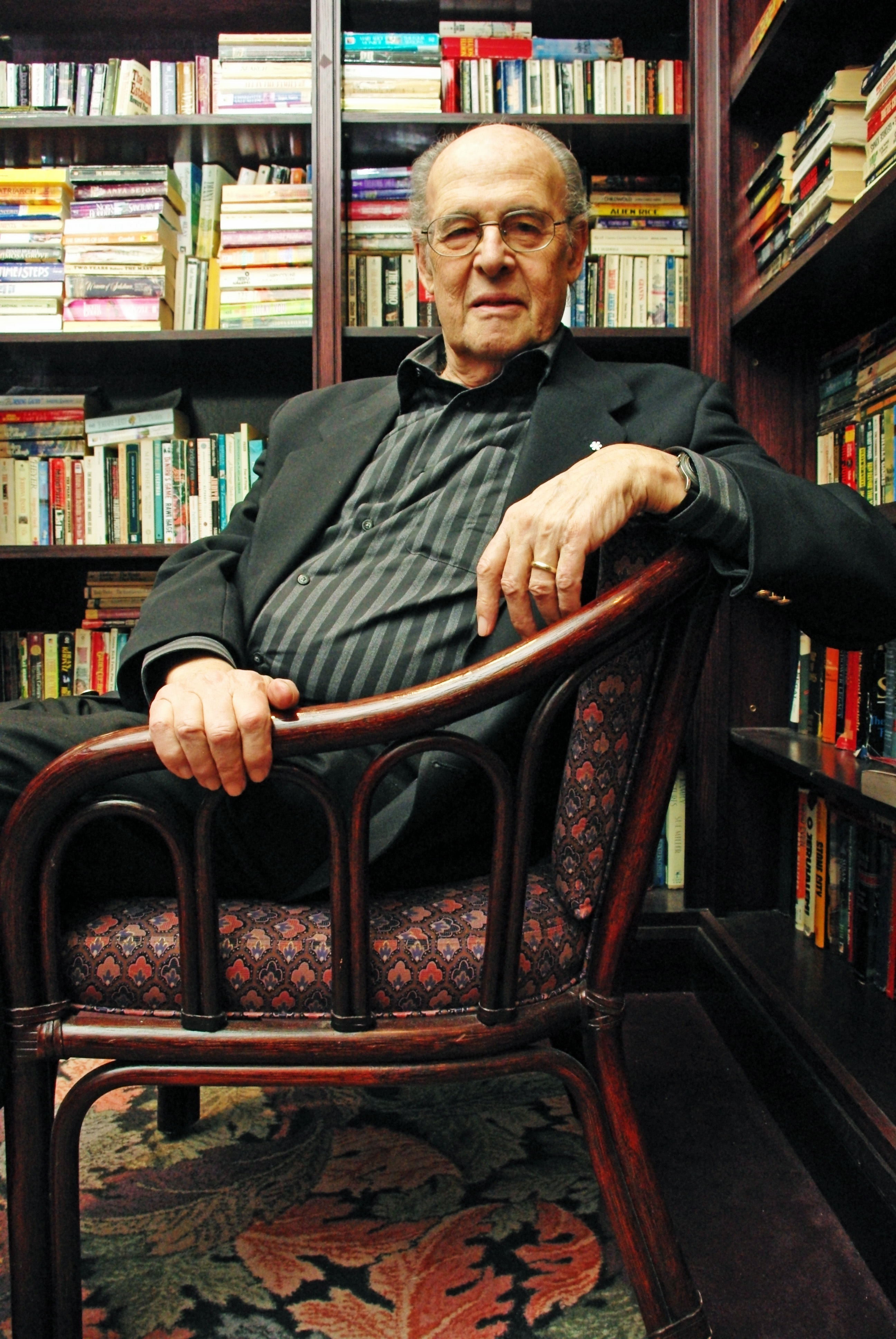 Dr. Ronald Melzack photographed in the library of the senior citizens residence where he resides.